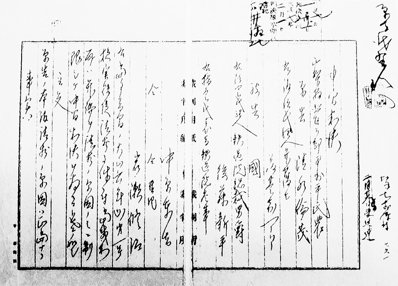 Lower court decision The damage lawsuit case that Shingen-ko Hatakake-matsu pine tree withering